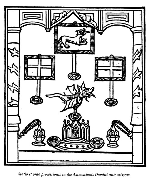 Illustration from Sarum Processional, ed. W.G. Henderson, 1882, McCorquodale, Leeds, UK (p.122). Woodcut showing order of procession for Rogation Days in Pre-Reformation England, c early 16th century.